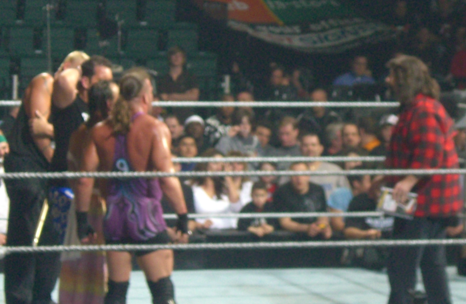 Mick Foley promoting his book on ECW